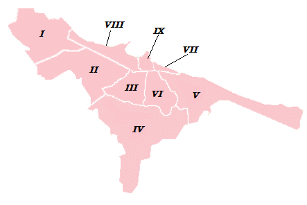 These are the quarters of Bari, Apulia.